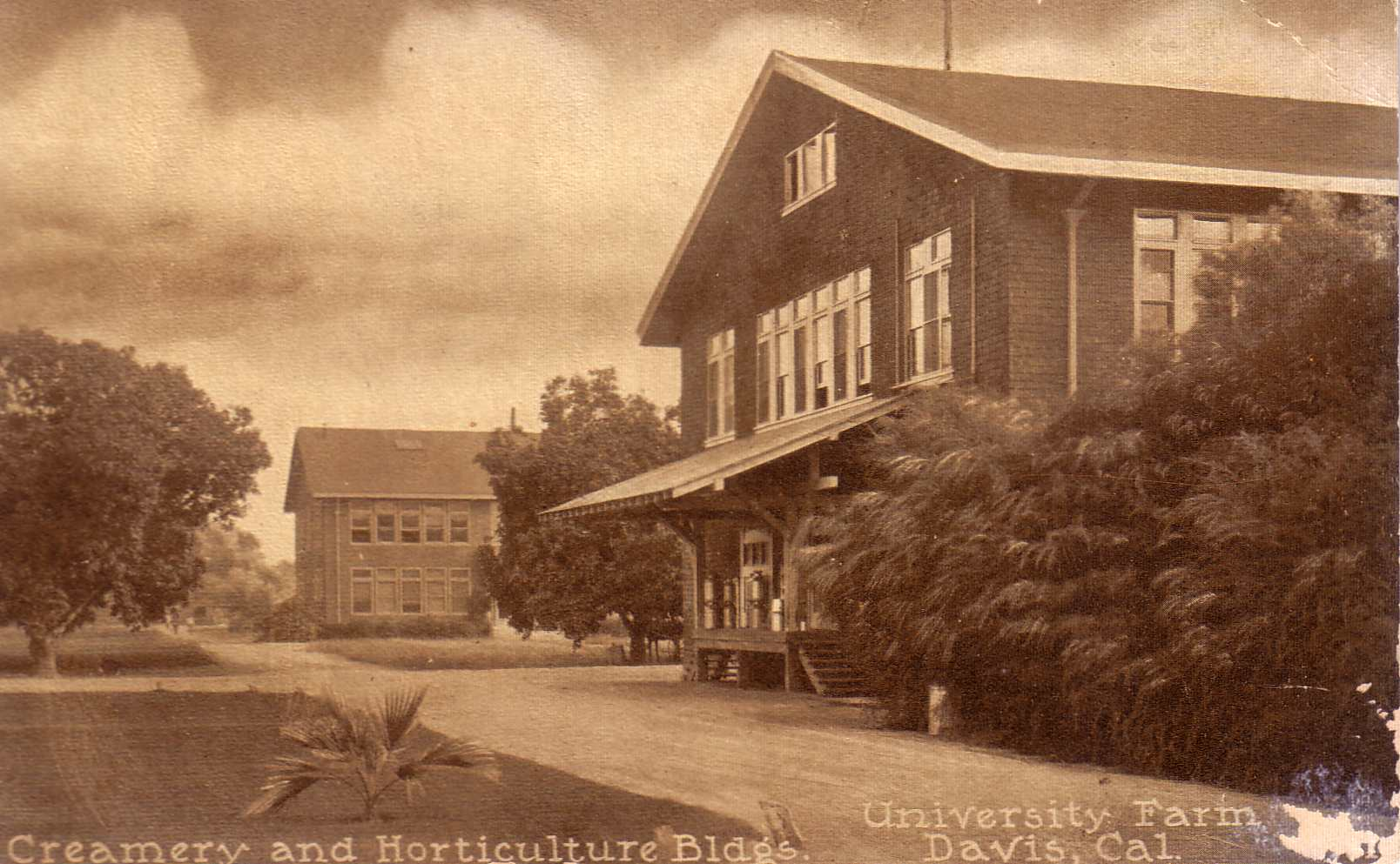 Creamery and Horticulture Bldgs. University Farm Davis, Cal. From what I can tell, this is at the north-east end of what is now Shields Library. [I'm unsure of the date of this photograph, but probably 1910's era. Almost certainly prior to 1923, and thus out of copyright.]